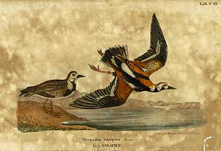 Plate from Aves de la Isla de Cuba , by Juan Lembeye, depicting the Ruddy Turnstone. Havana: Imprenta del Tiempo, 1850.